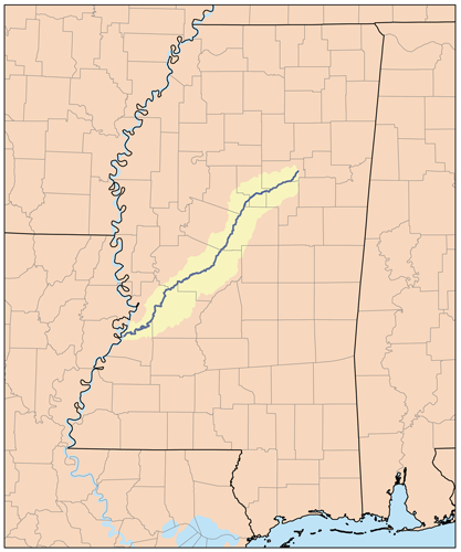 Map of the Big Black River watershed.